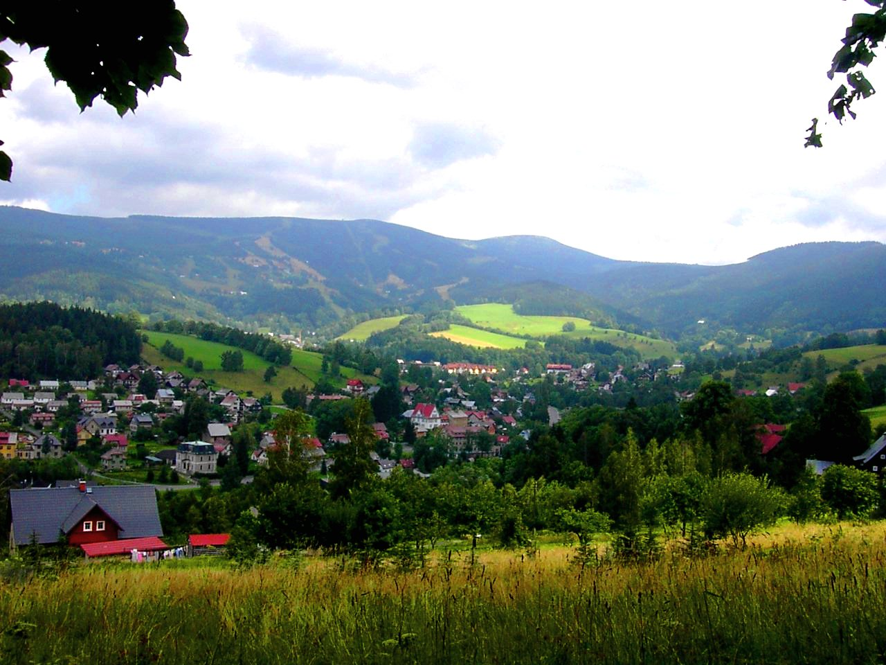 Rokytnice nad Jizerou, Czech Republic. A view of Horní Rokytnice (upper part of the town) and Lysá hora Mt. (1344 m).